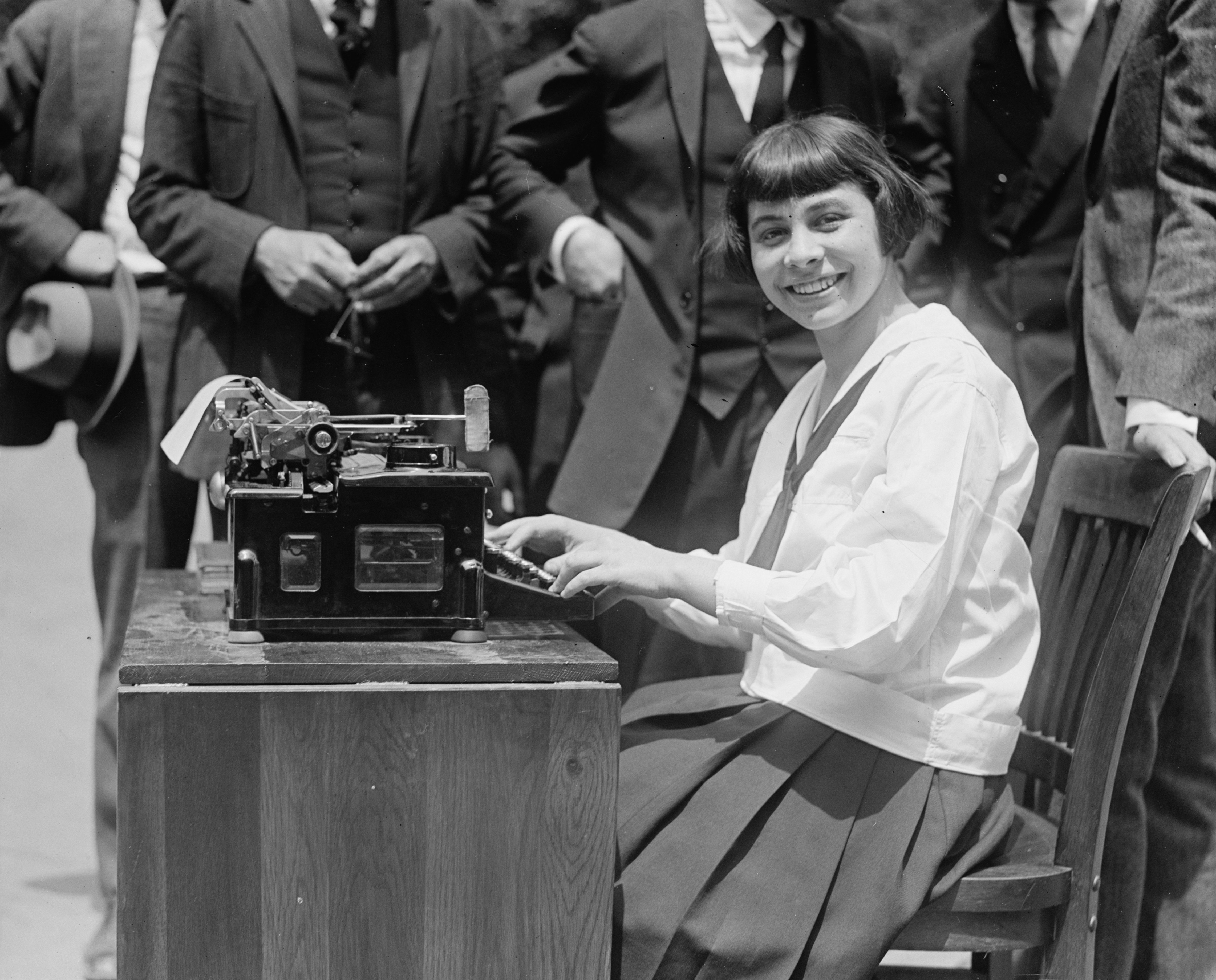 Title: Birdie Reeve, [5/13/24] Abstract/medium: National Photo Company Collection (Library of Congress) Physical description: 1 negative